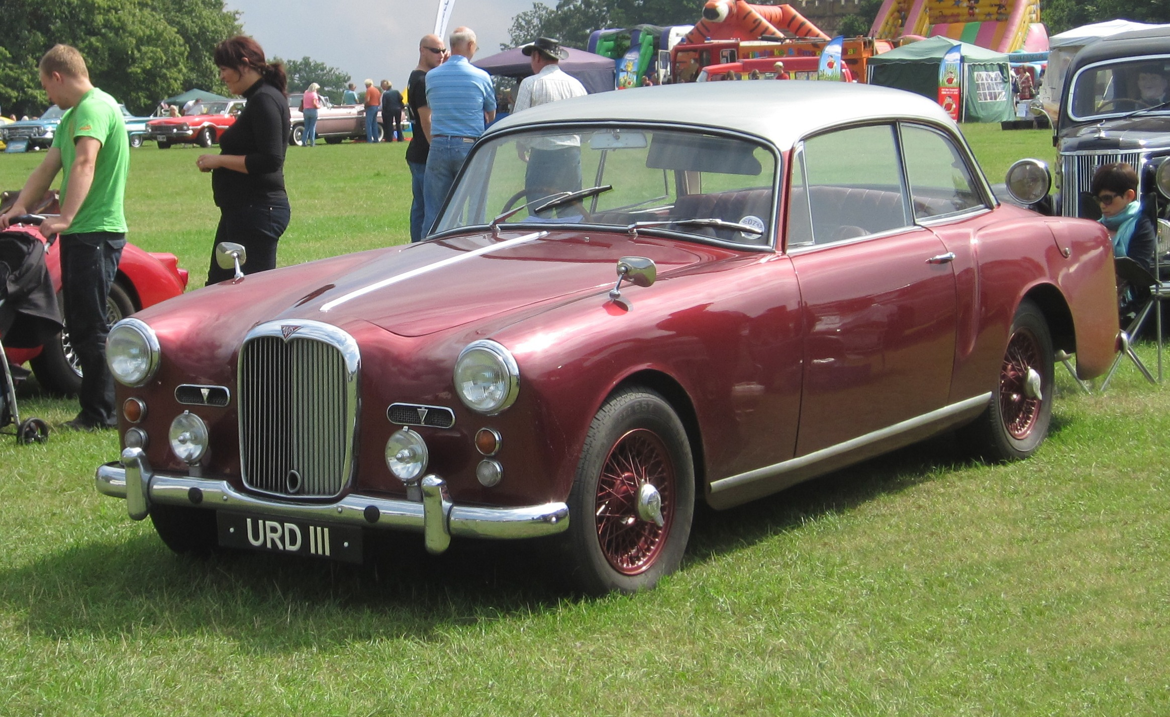 Alvis TD 21 (ca 1960)